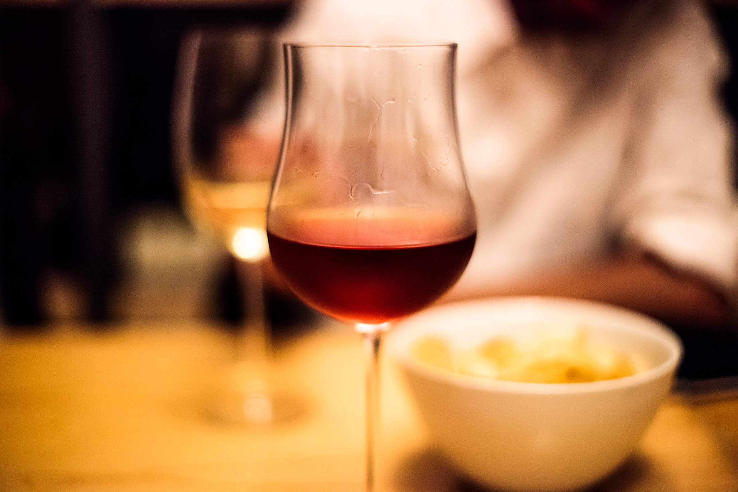 wine served at a Naples bar